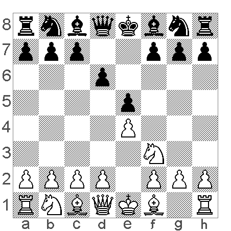 chess diagram Philidor defence Source: CBlight + my processing